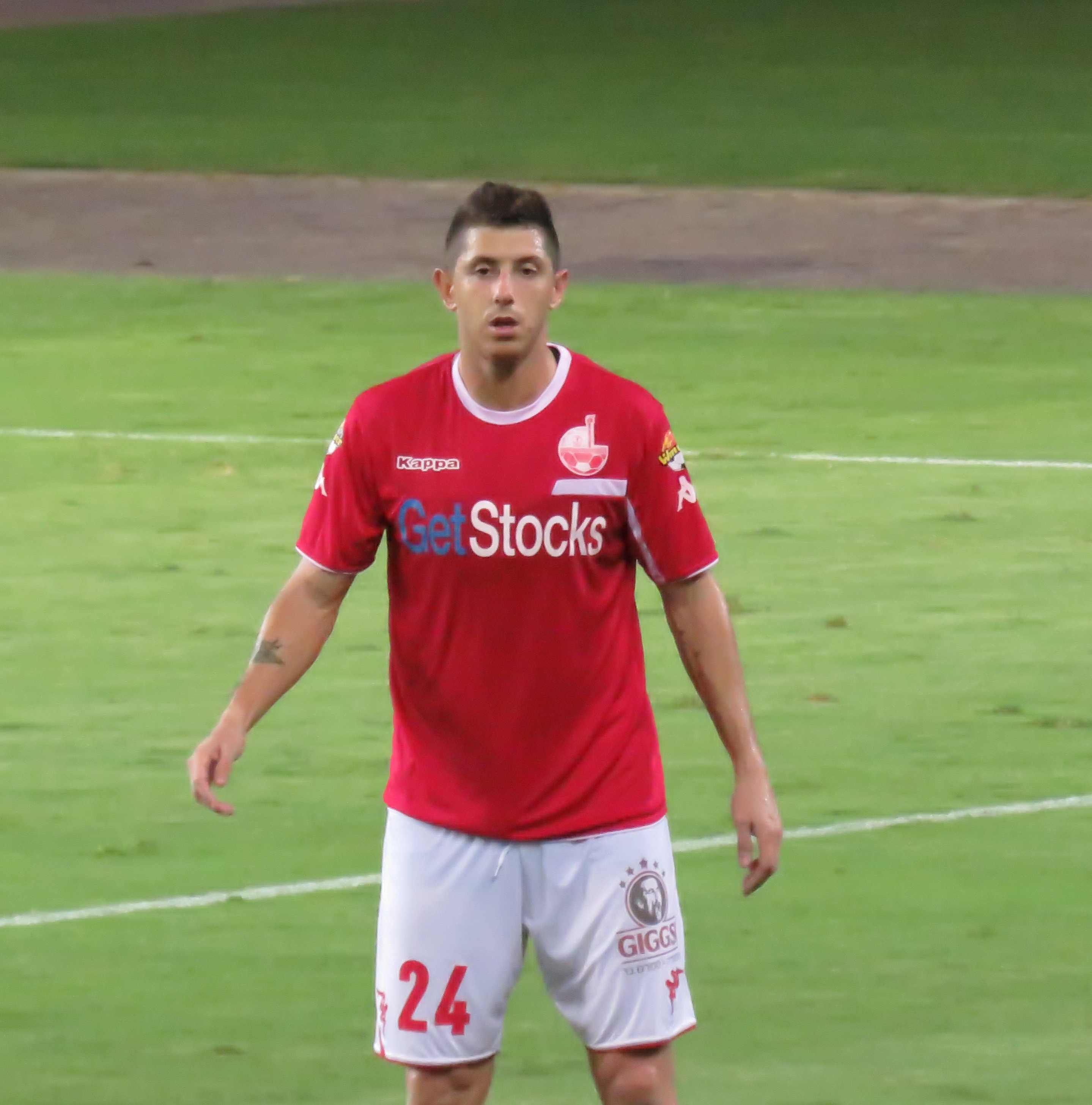 Hapoel Ra'anana vs. Hapoel Be'er Sheva - September 12, 2015